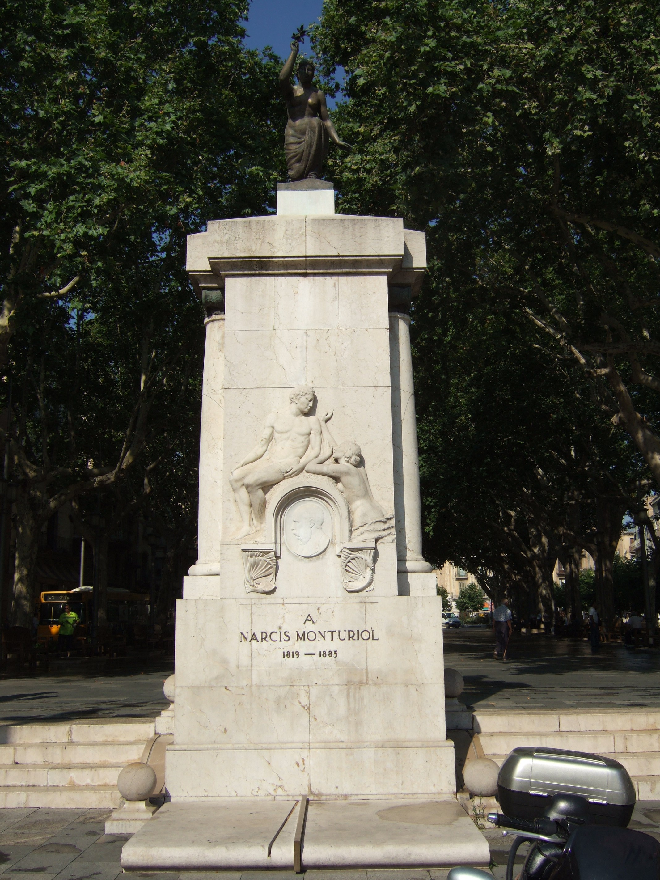 Main view of the Narcís Monturiol's Monument in the Figueres' Rambla, Alt Empordà, Catalonia (Spain)